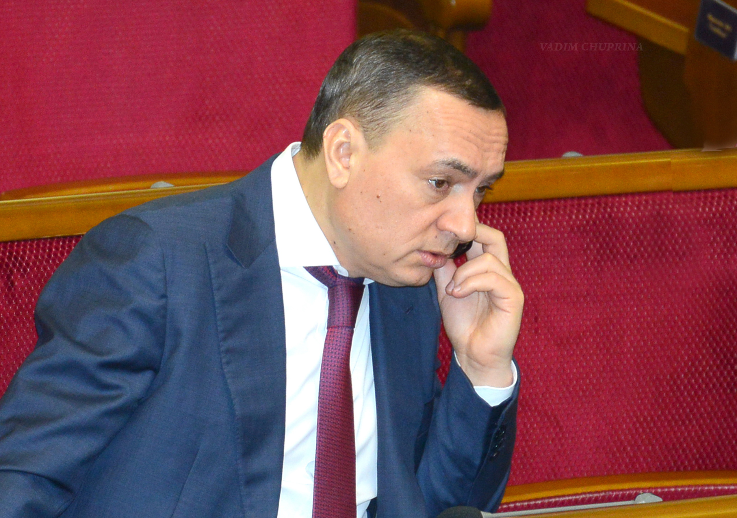 Ukrainian politicians VADIM CHUPRINA